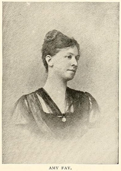 Portrait of American musician Amy Fay (1844 – 1928). From American Women: Fifteen Hundred Biographies with Over 1,400 Portraits, Frances E. Willard and Mary A. Livermore, editors. Mast, Crowell & Kirkpatrick, 1897 (revised edition from 1893), p. 285